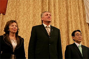 Livia Klausová, spouse of the President, and Mirek Topolánek, Prime Minister, attended the Reception to Celebrate the Emperor's Birthday with Hideaki Kumazawa, Ambassador to the Czech Republic, at Hilton Prague in Prague City on December 4, 2007.